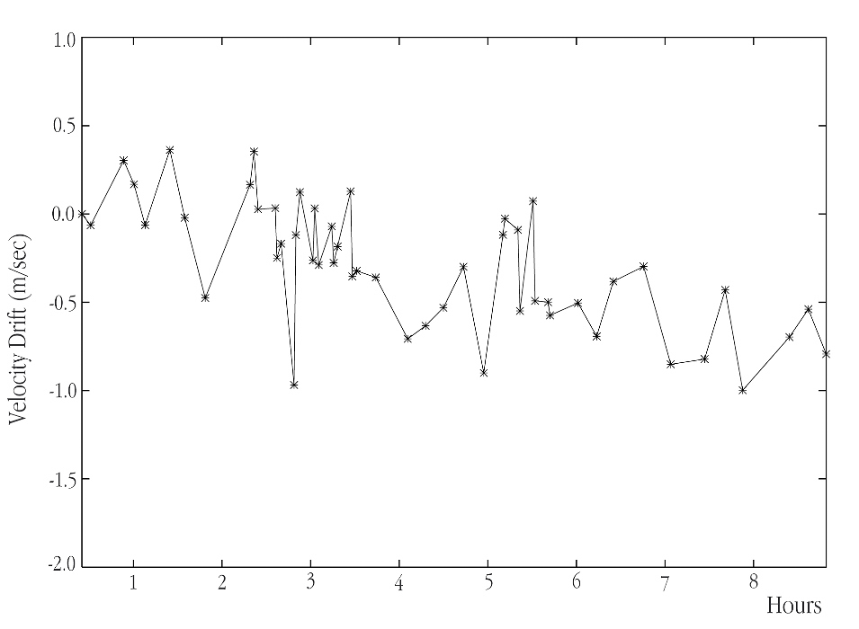 Powerful demonstration of the extraordinary stability of the HARPS spectrograph. It plots the instrumentally induced velocity change, as measured during one night (9 consecutive hours) in the commissioning period. The drift of the instrument is determined by computing the exact position of the Thorium emission lines. As can be seen, the drift is of the order of 1 m/s during 9 hours and is measured with an accuracy of only 20 cm/s.